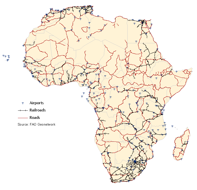 Major roads, railroads and airports in Africa.